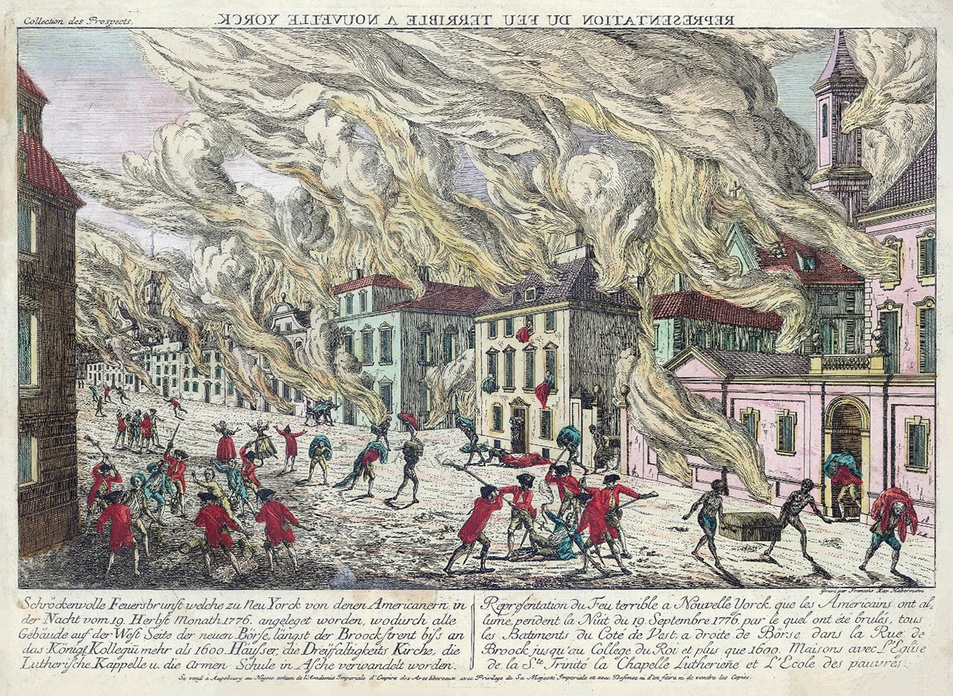 Artist's depiction of the Great Fire of New York on September 19, 1776. Text in French and German describing the event. French caption reads